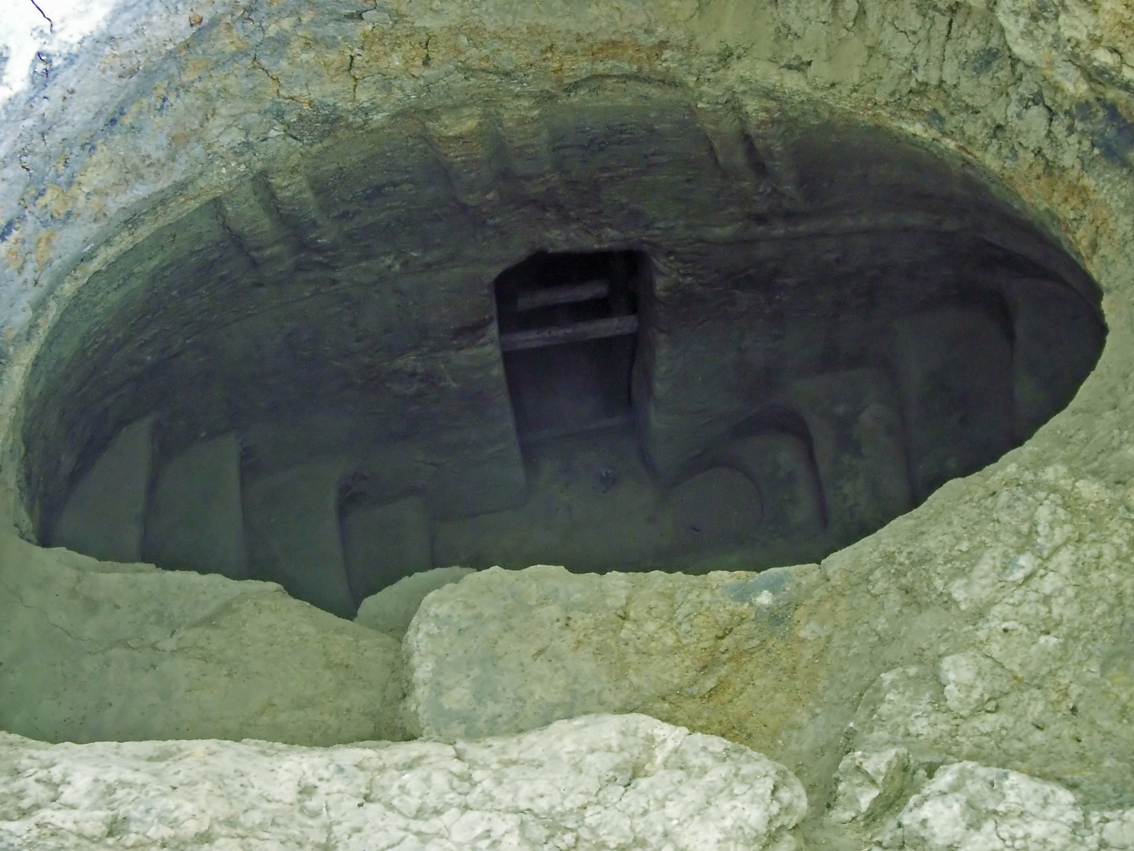 Tierradentro: access to the hypogeum by stairs